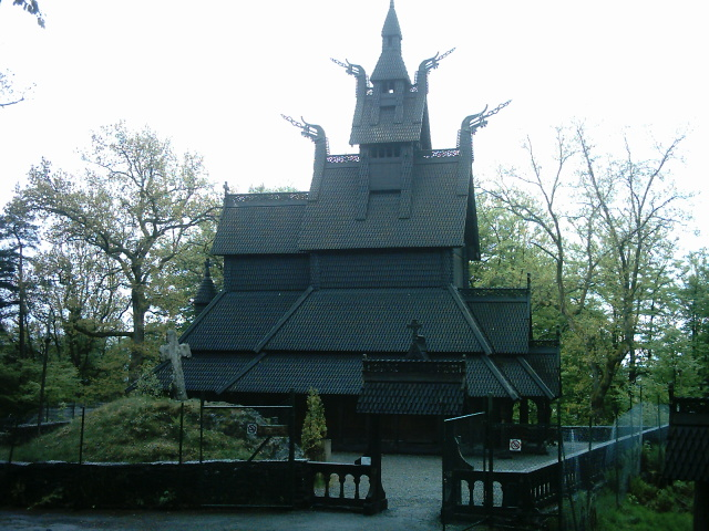 Fantoft Stave Church, Norway